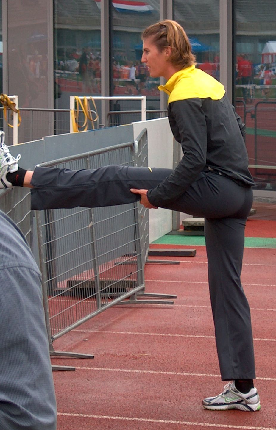 Karin Ruckstuhl dutch hepthathlete at dutch championships 2007, during warming up